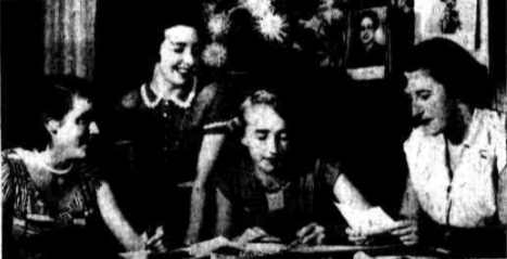 MISSES VIRGINIA FAVIELL, AUDREY WILKINS, PAT KINGS-FORD and CHARLENE TODMAN, members of the N.S.W. Society for Crippled Children.